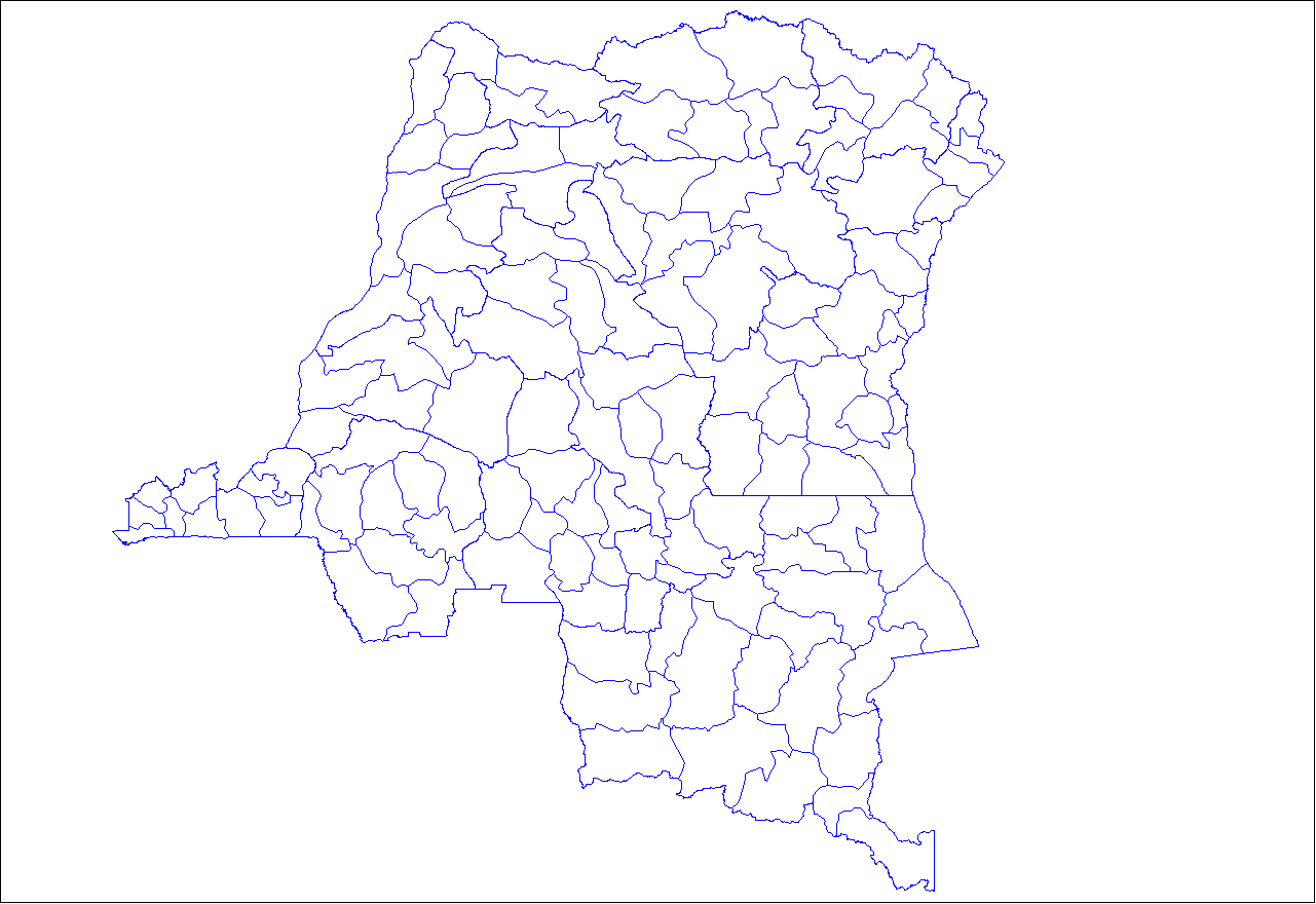 Map of the zones of the Democratic Republic of the Congo. Created by Rarelibra 19:42, 6 December 2006 (UTC) for public domain use, using MapInfo Professional v8.5 and various mapping resources.